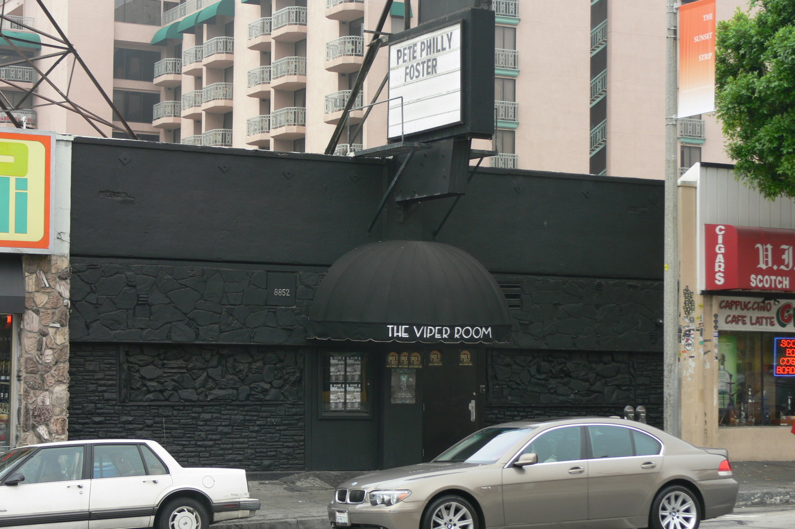 The Viper Room, 8852 W Sunset Blvd, West Hollywood, CA. Photograph by Mike Dillon, May 10, 2006.